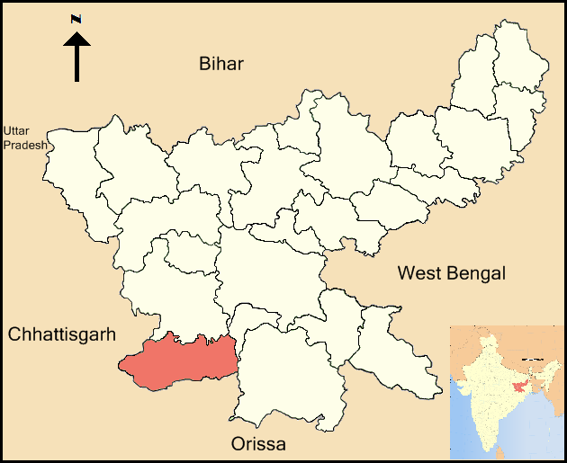 An locator map of Simdega district, Jharkhand state, India